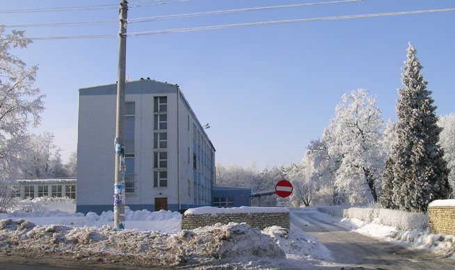 secondary school in Wolbrom